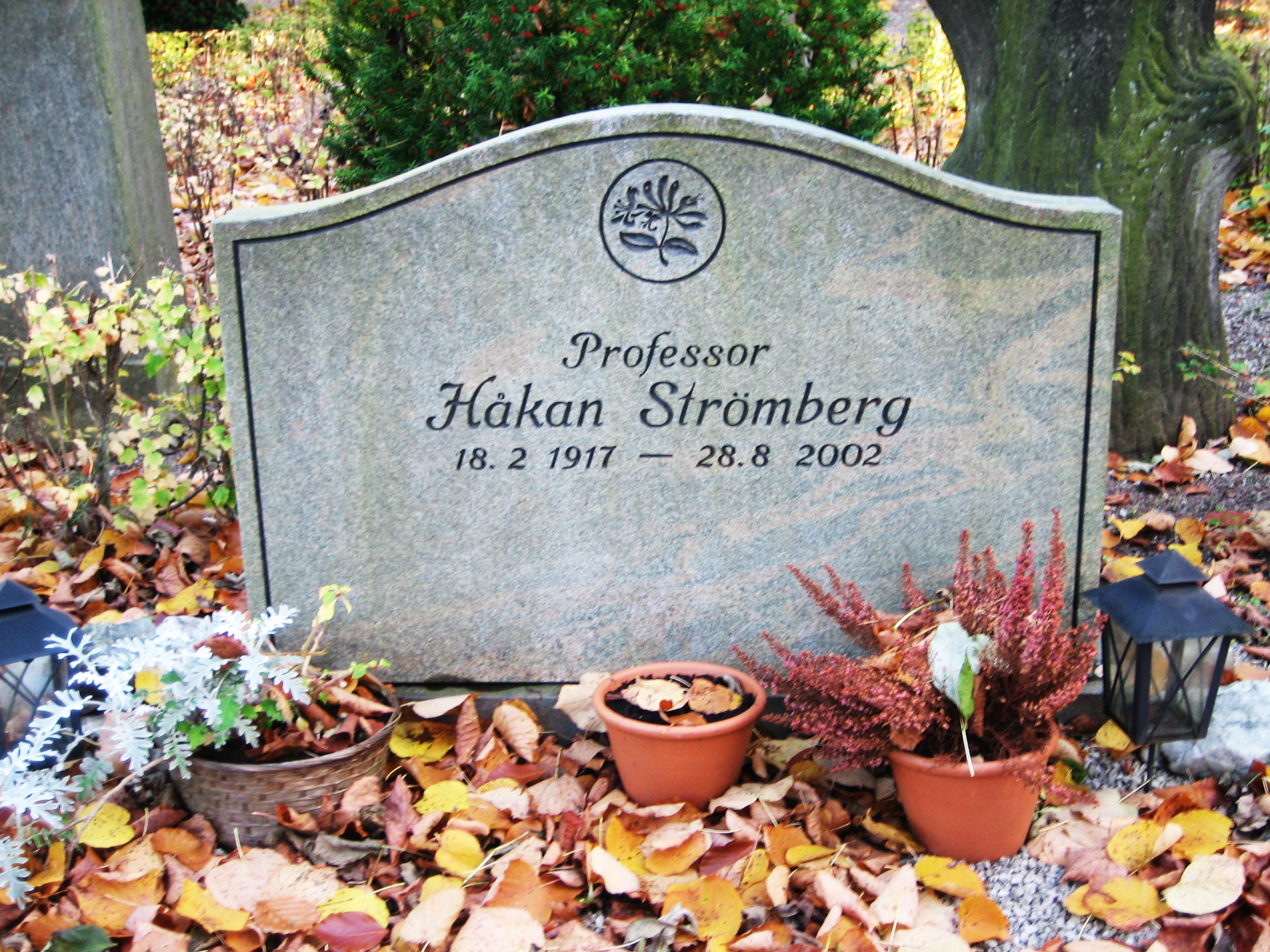 Grave of swedish professor Håkan Strömberg (1917-2002). Photo taken at Östra kyrkogården in Lund, Sweden by the uploader.